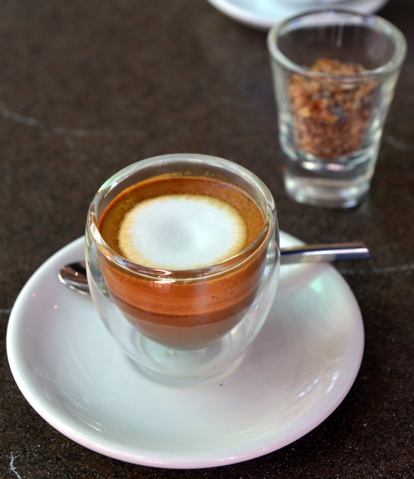 An espresso macchiato" at "Impresso Espresso Bar" in Chiang Mai, Thailand